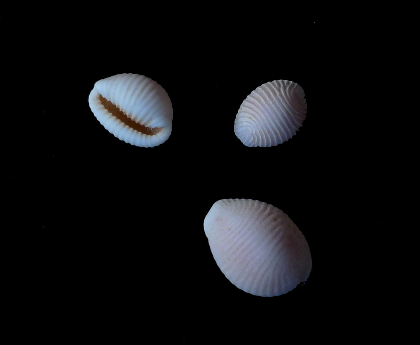 Trivia arctica from North-Wales/Britain